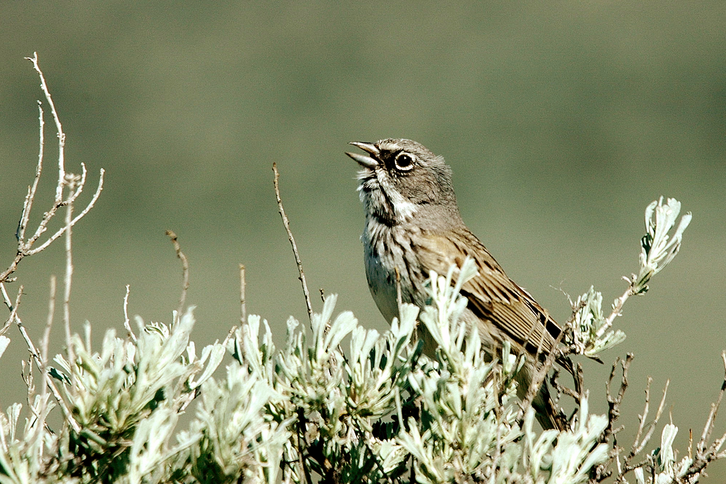 Sagebrush Sparrow — Artemisiospiza nevadensis. Nature of the Great Basin, Bureau of Land Management in Oregon. The BLM manages public lands in Oregon and Washington that are home to some of the most diverse and incredible wildlife species and habitats. The BLM cooperates closely with state wildlife management agencies in improving fish and wildlife habitat conditions, restoring animal populations, providing forage and water, and managing habitats to attain appropriate wildlife population levels. The BLM also welcomes and encourages the cooperation of wildlife groups, sports clubs, and others interested in wildlife management.